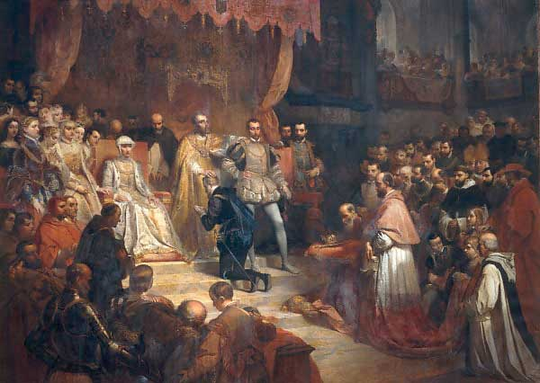 Abdication of Emperor Charles V. The painting shows his sister, Queen Mary of Hungary, wearing white even though she never wore anything but black after her husband's death